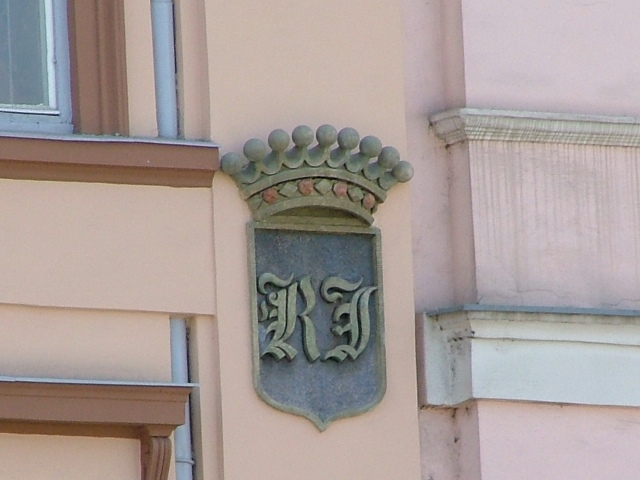 Rhedey Palace coat of arms, Cluj-Napoca, Romania